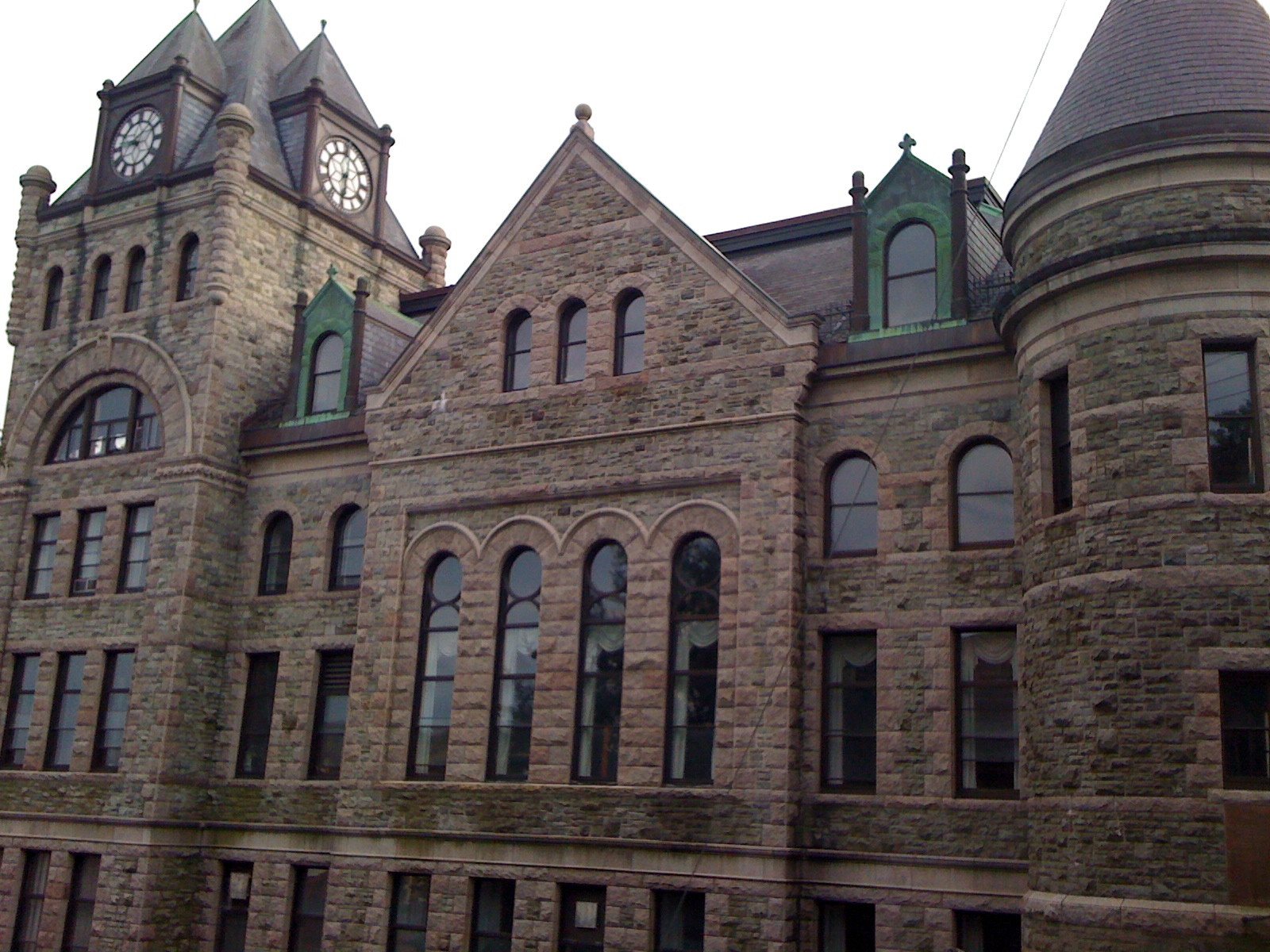 North facade and clocktower of the Supreme Court of Newfoundland and Labrador